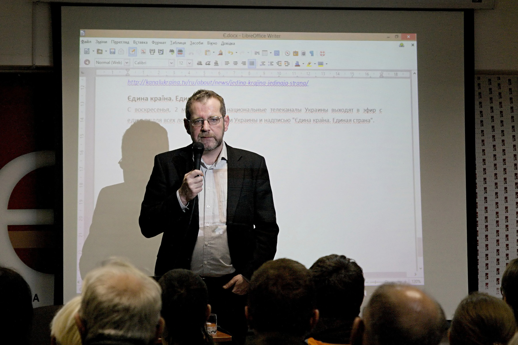 Michael Moser lecture on the "Bookstore Є". February 19, 2016, Kyiv.